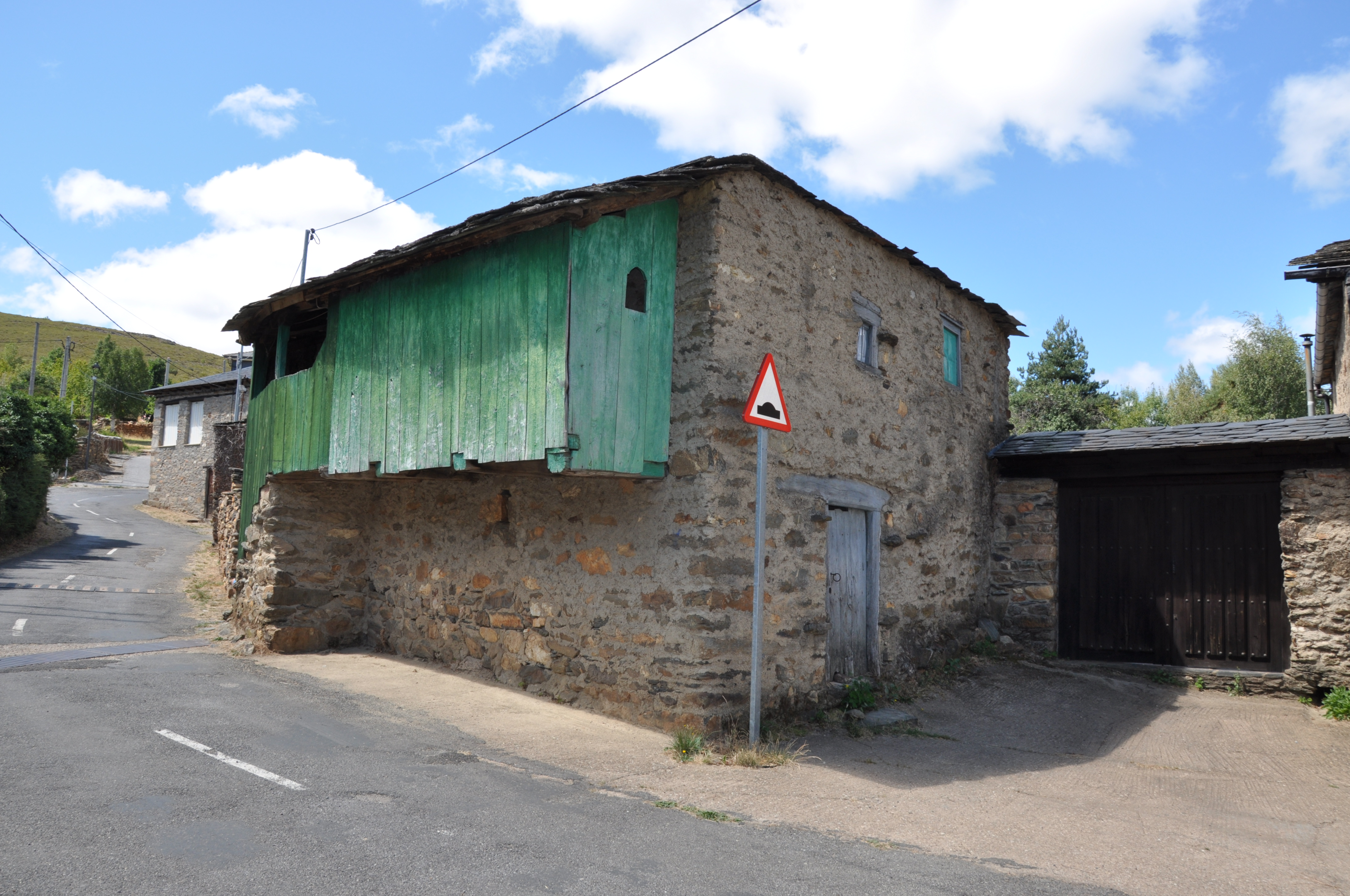 Traditional architecture, Truchillas, La Cabrera, LE, Spain